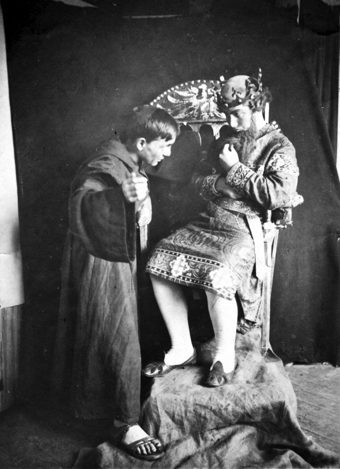 Amateur play at Freie Schulgemeinde (= Free School Community) in Wickersdorf near Saalfeld in the Thuringian Forest, Germany. On the right: the Austrian Hermann Thimig (1890–1982), here acting as Charles the Great (French: Charlemagne), who later became a director, a theatre and film actor.